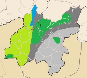 Vegetação do Seridó.